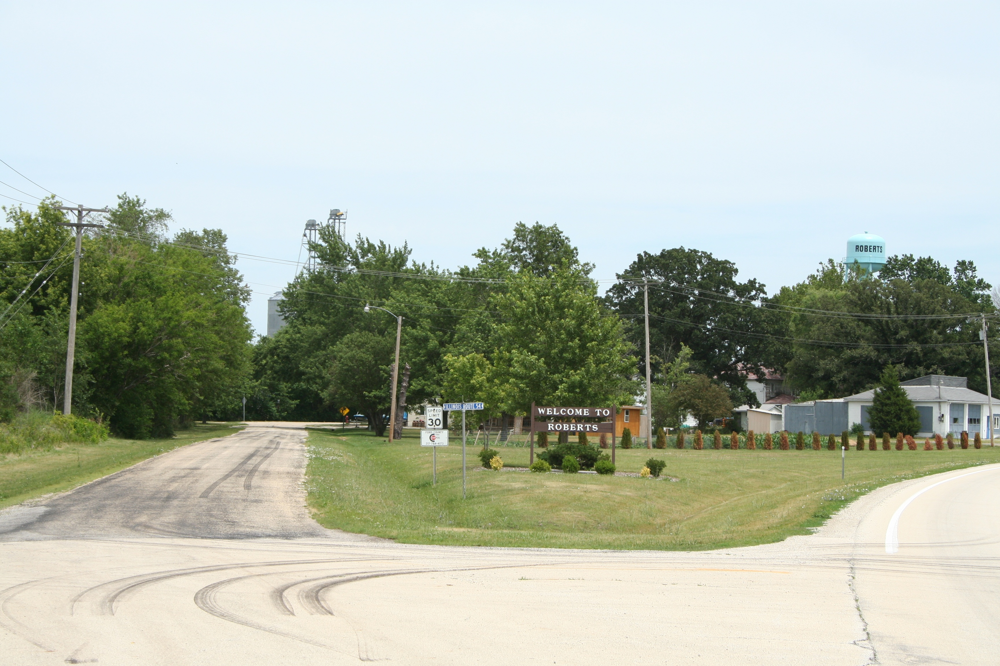 Roberts_Illinois_welcome_sign_water_tower_and_IL54